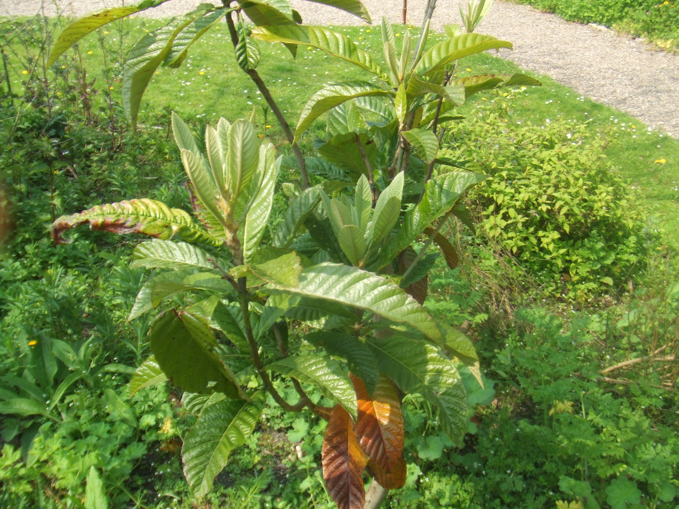 Eriobotrya japonica, picture taken at the Botanische tuin TU Delft in Delft, The Netherlands